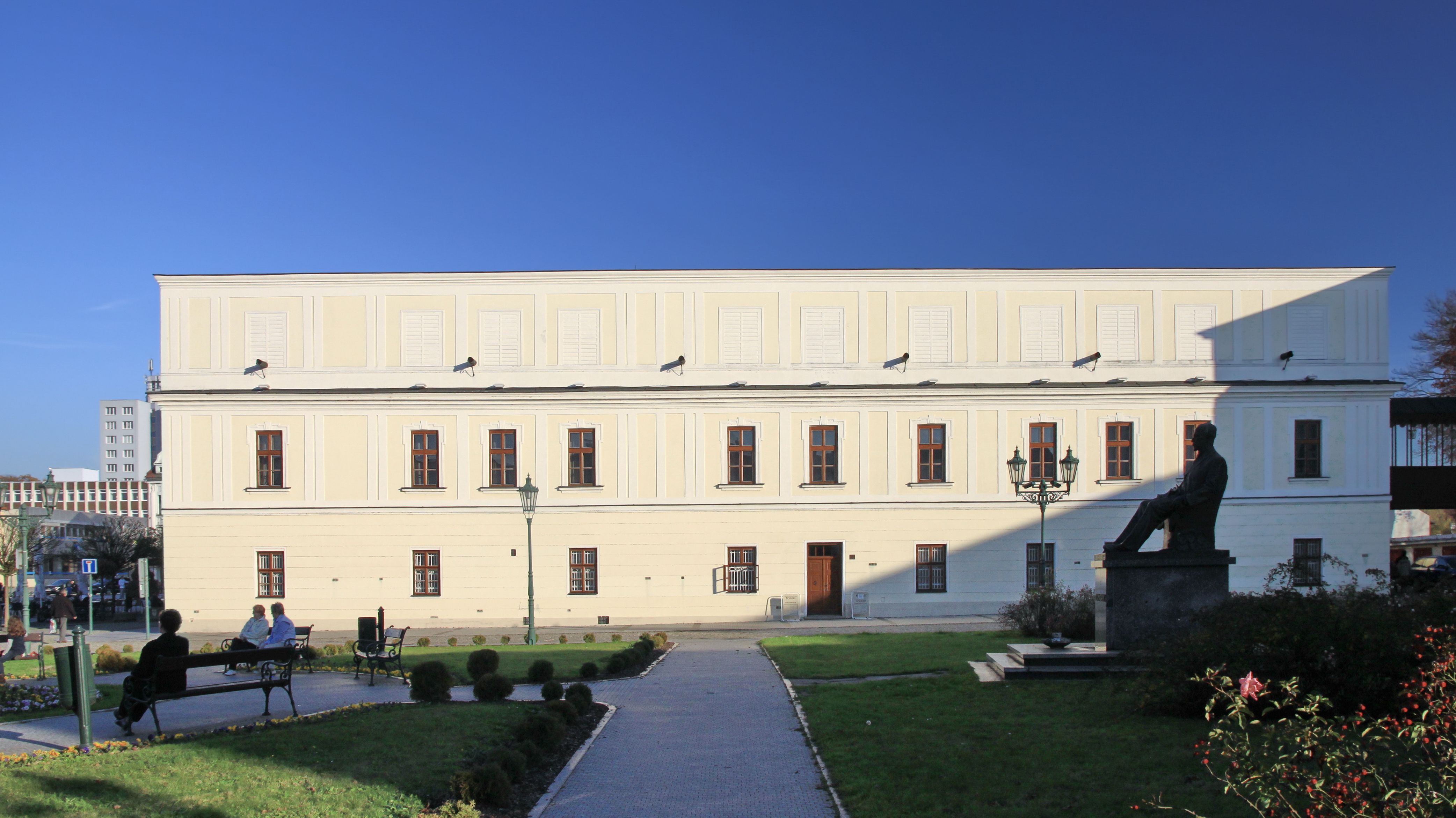 Lottyhaus, Masarykovo náměstí 32, Fryštát, Karviná. Moravian-Silesian Region, Czech Republic.